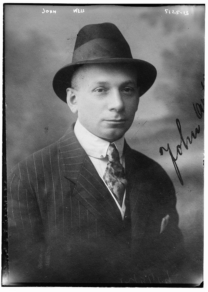 John Ellsworth Weis circa 1920